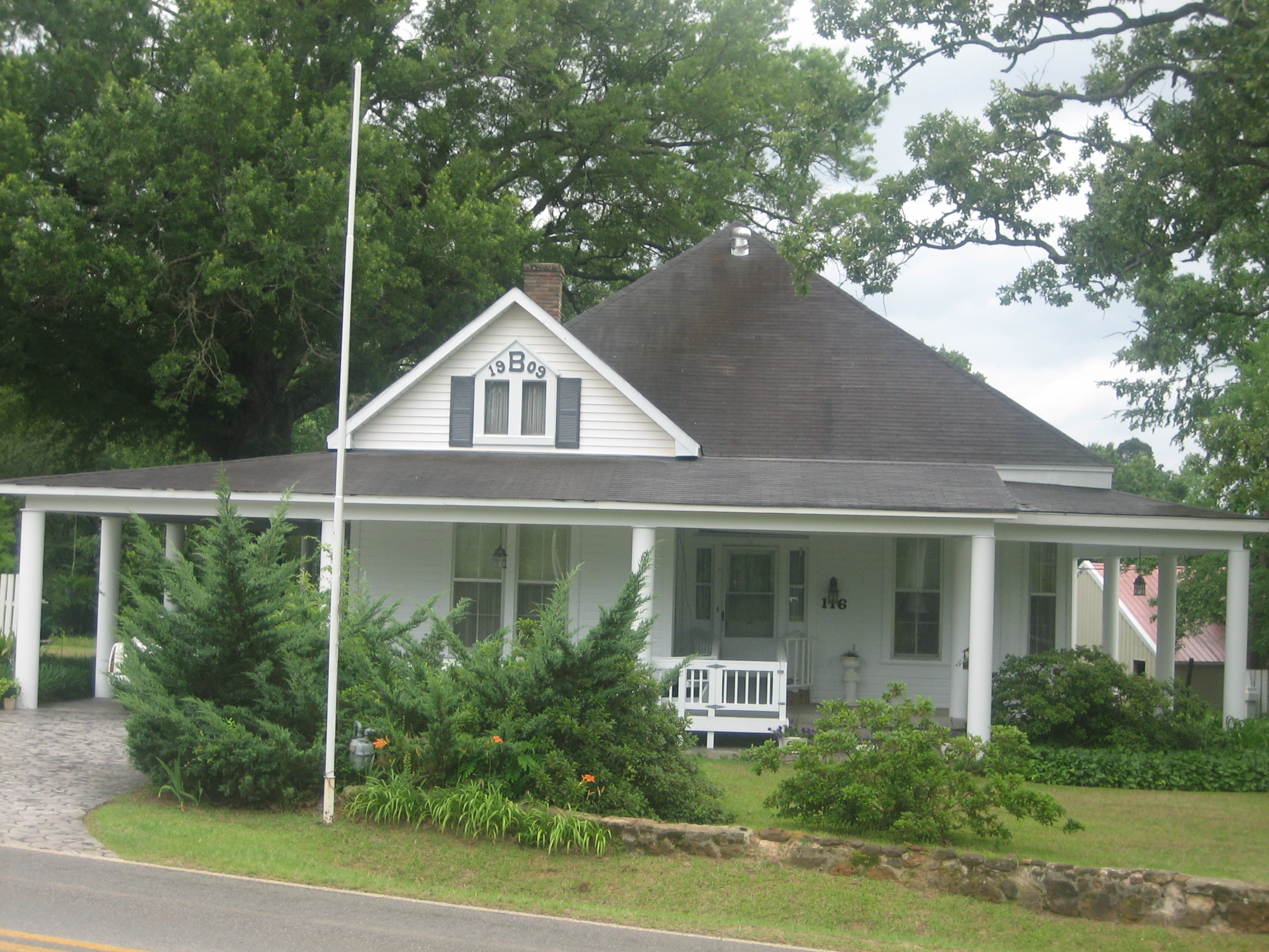 I took photo on May 22, 2009.Billy Hathorn (talk) 19:30, 29 May 2009 (UTC)